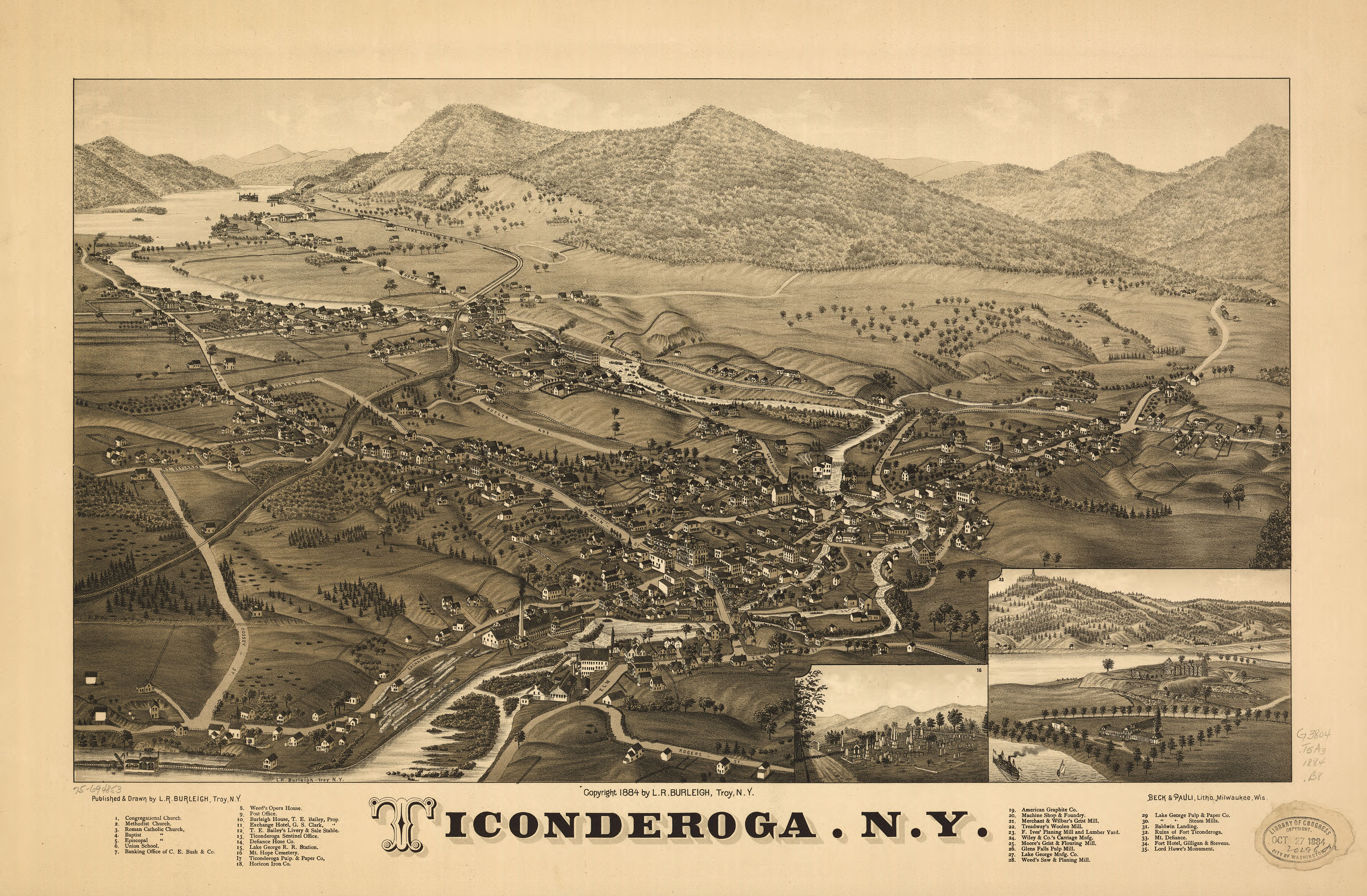 Perspective map not drawn to scale. Bird's-eye-view. LC Panoramic maps (2nd ed.), 639 Available also through the Library of Congress Web site as a raster image. Includes illus. and index to points of interest. AACR2